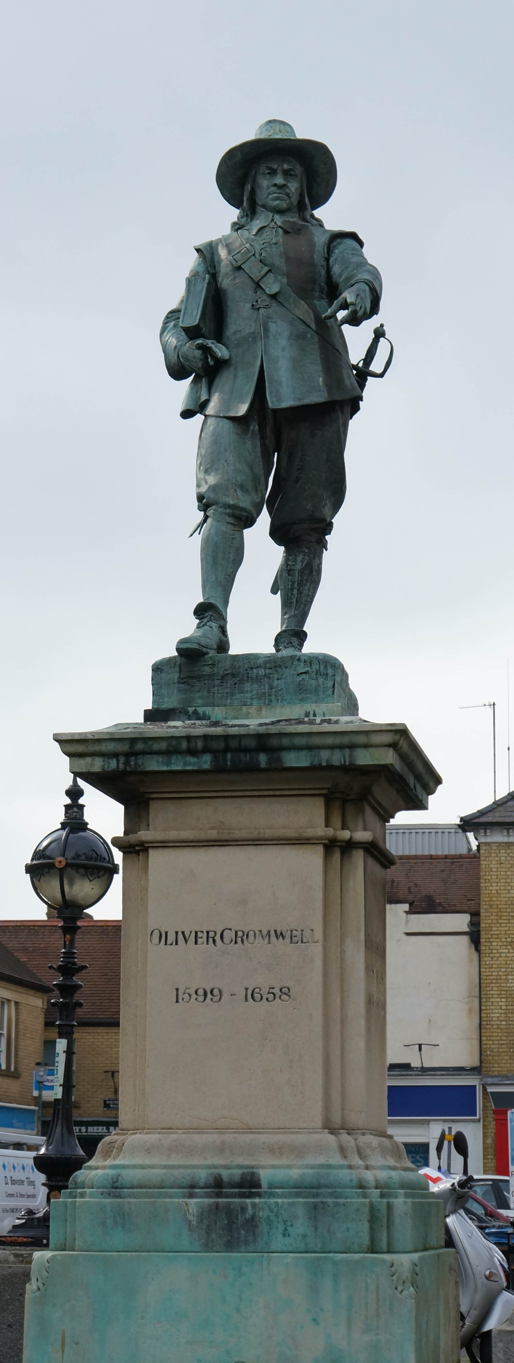 Statue of Oliver Cromwell located on Market Hill in St Ives, Cambridgeshire, UK.